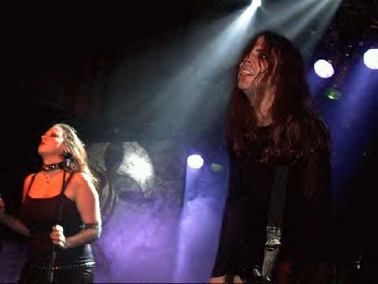 Flowing Tears live 2004